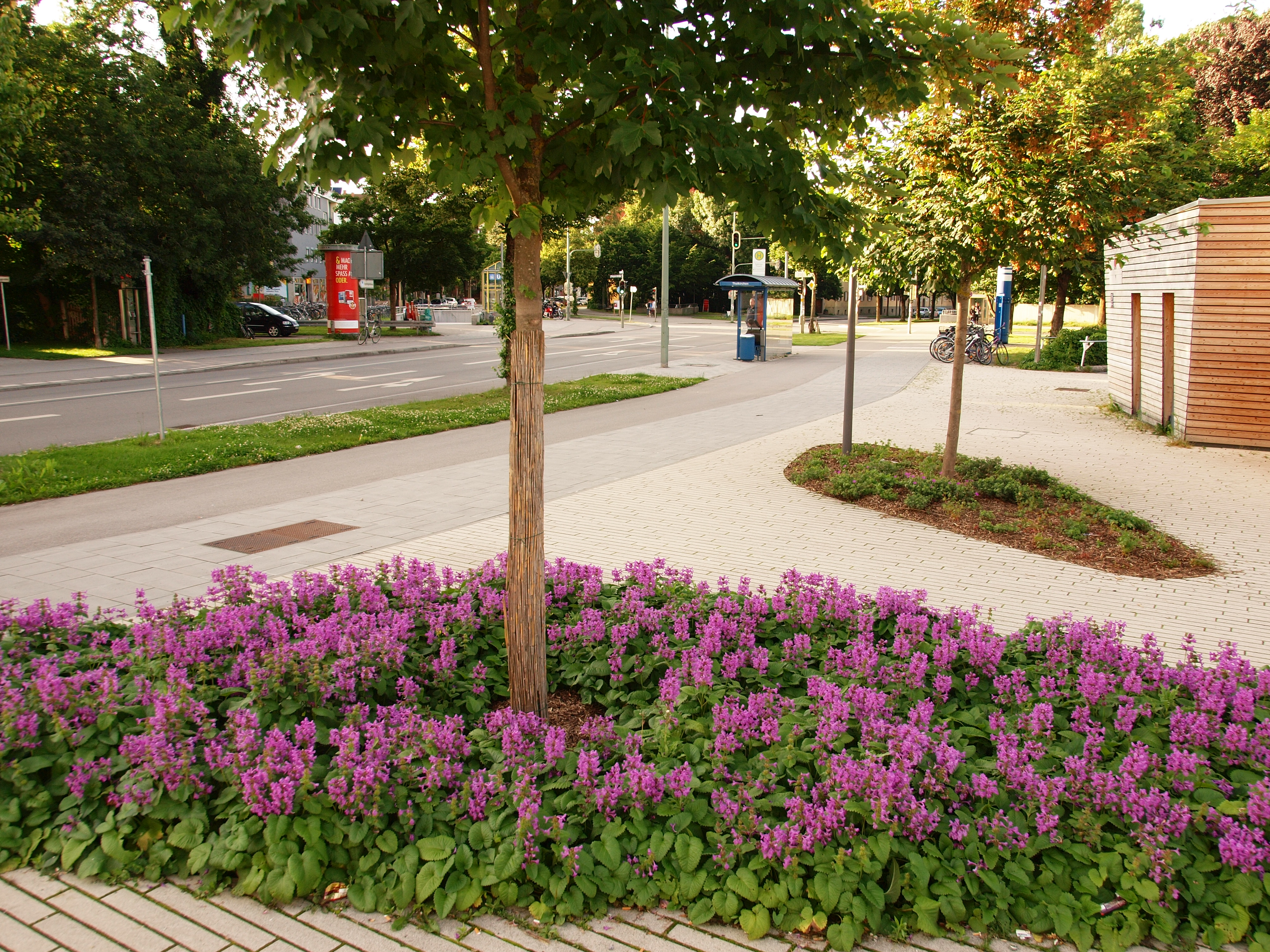 Betonica grandiflora